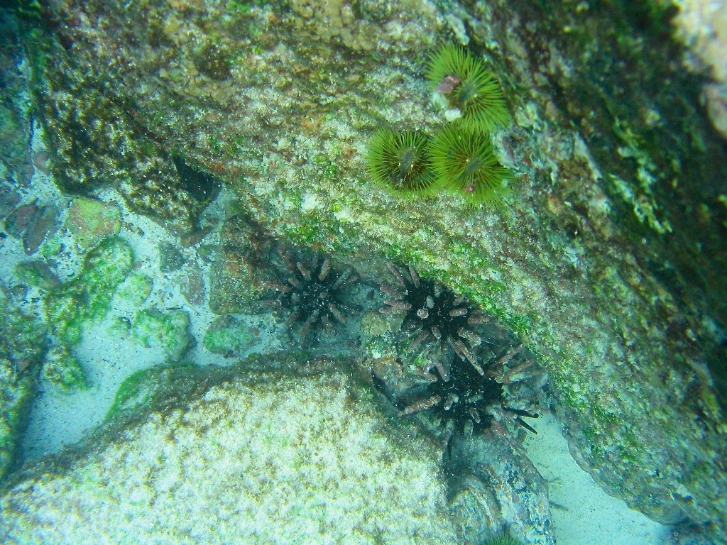 Many sea urchins see in San Cristobal, Galapagos (Ecuador). In green : Lytechinus semituberculatus. In dark : Eucidaris galapagensis.